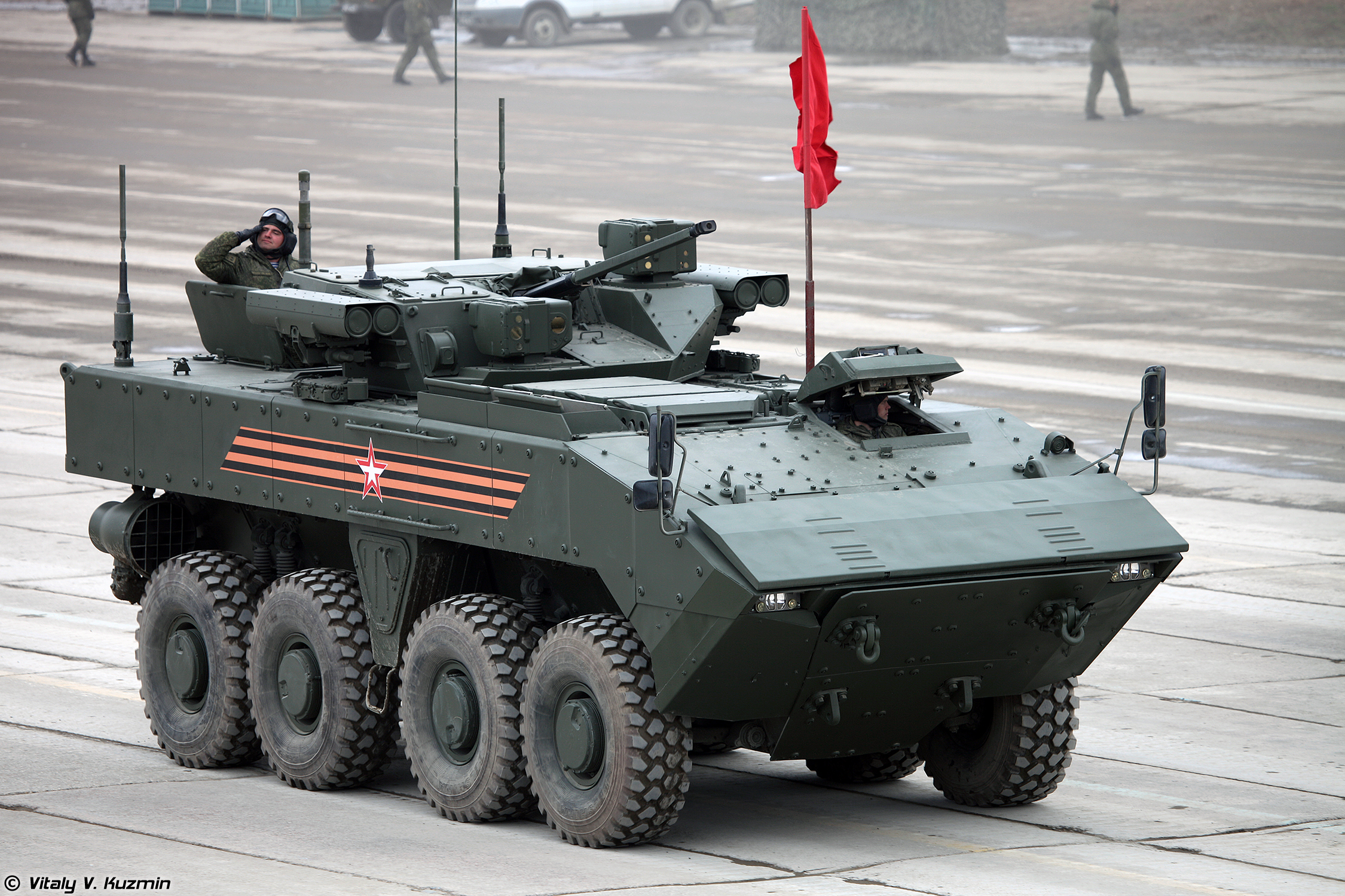 Wheeled IFV BMP-K K-17 VPK-7829 on unified wheeled combat platform Bumerang